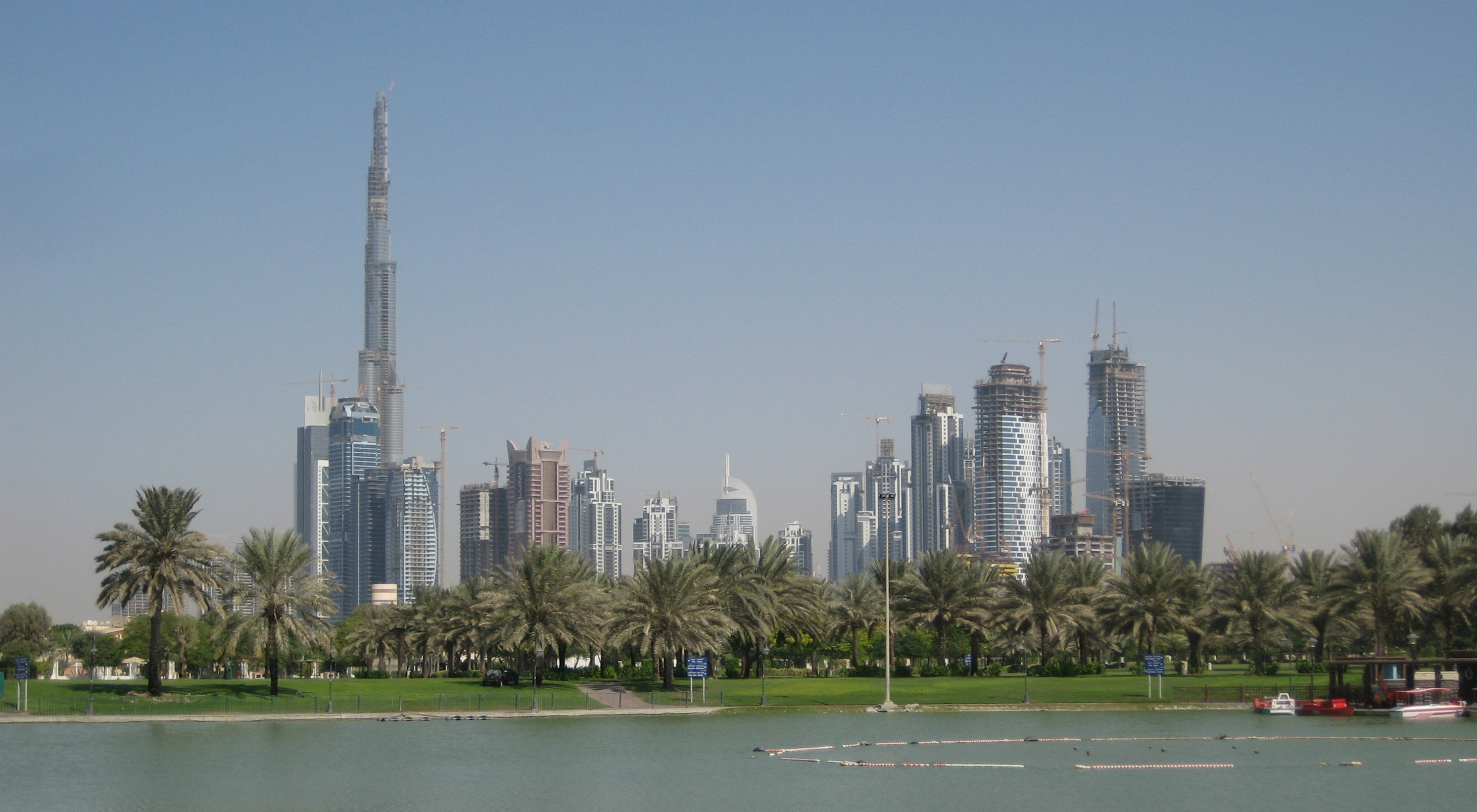 Downtown Burj Dubai and Business Bay, seen from Safa Park